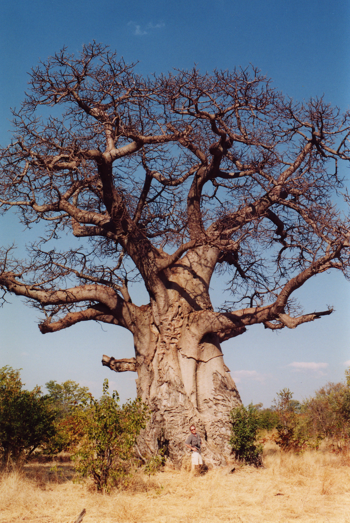 Adansonia digitata in Africa (Botswana or Zimbabwe according to the author).